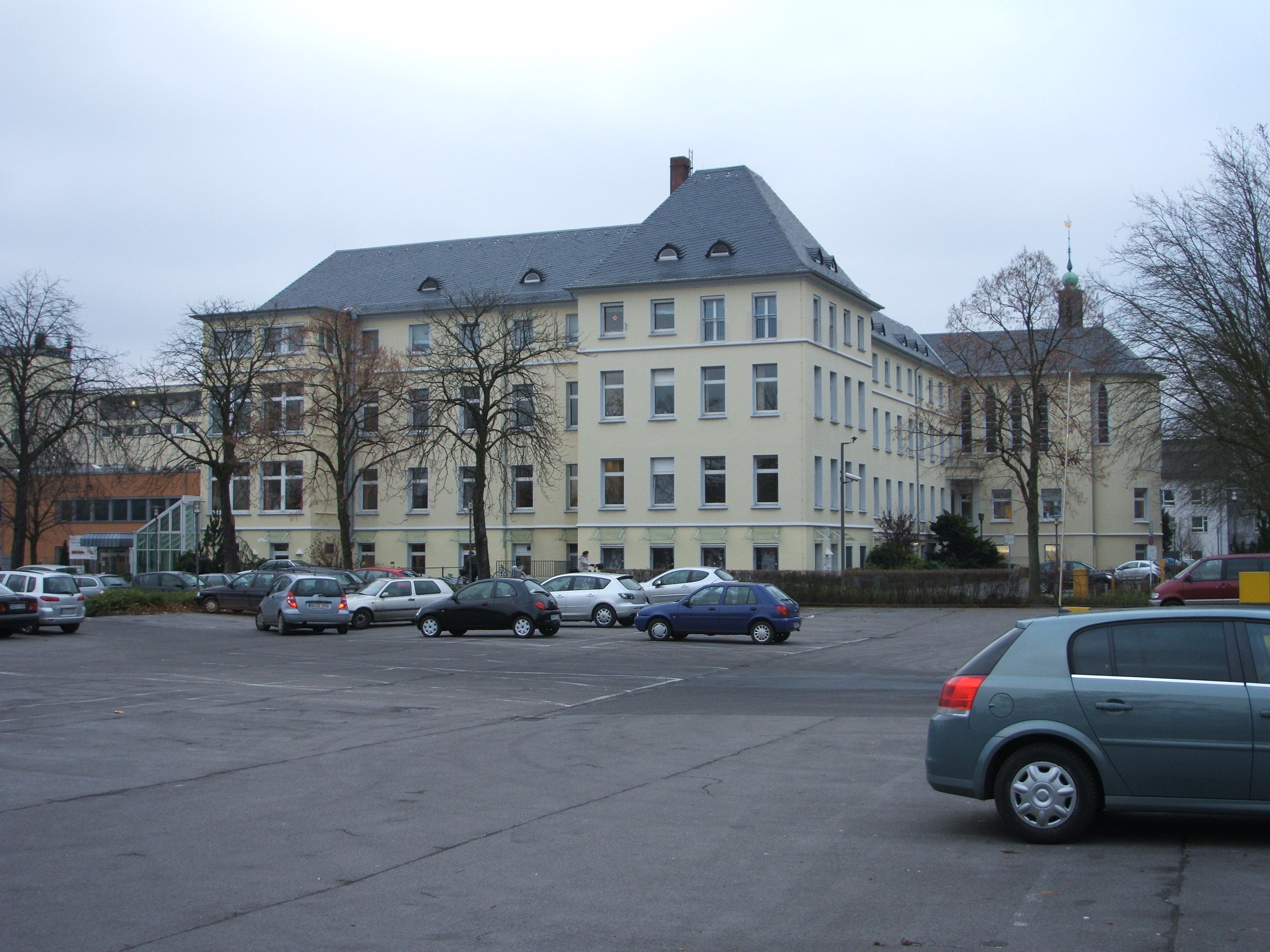 Recent photograph of Malteser St. Anna hospital in Duisburg-Huckingen